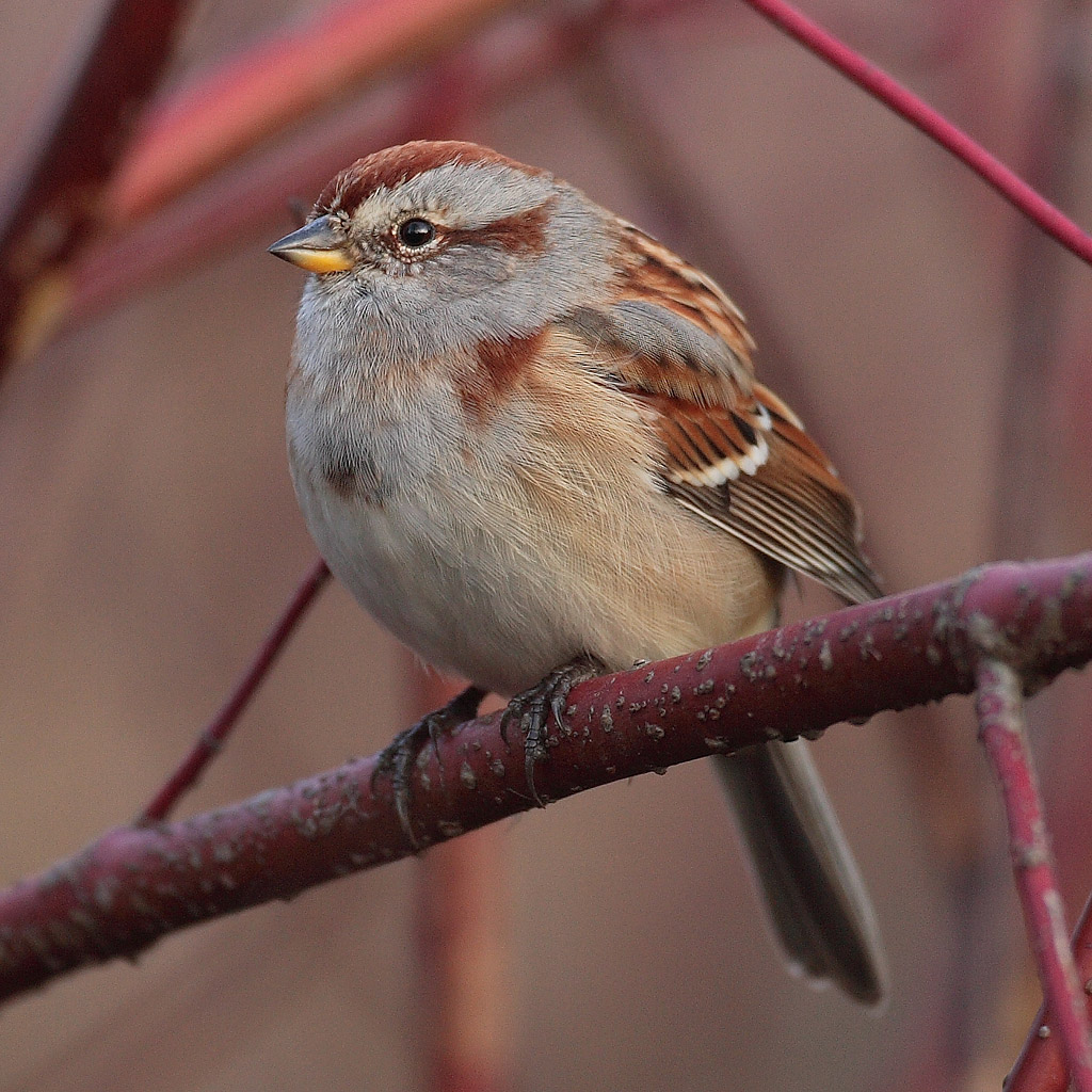 American Tree Sparrow (Spizella arborea), Whitby, Ontario, Canada.